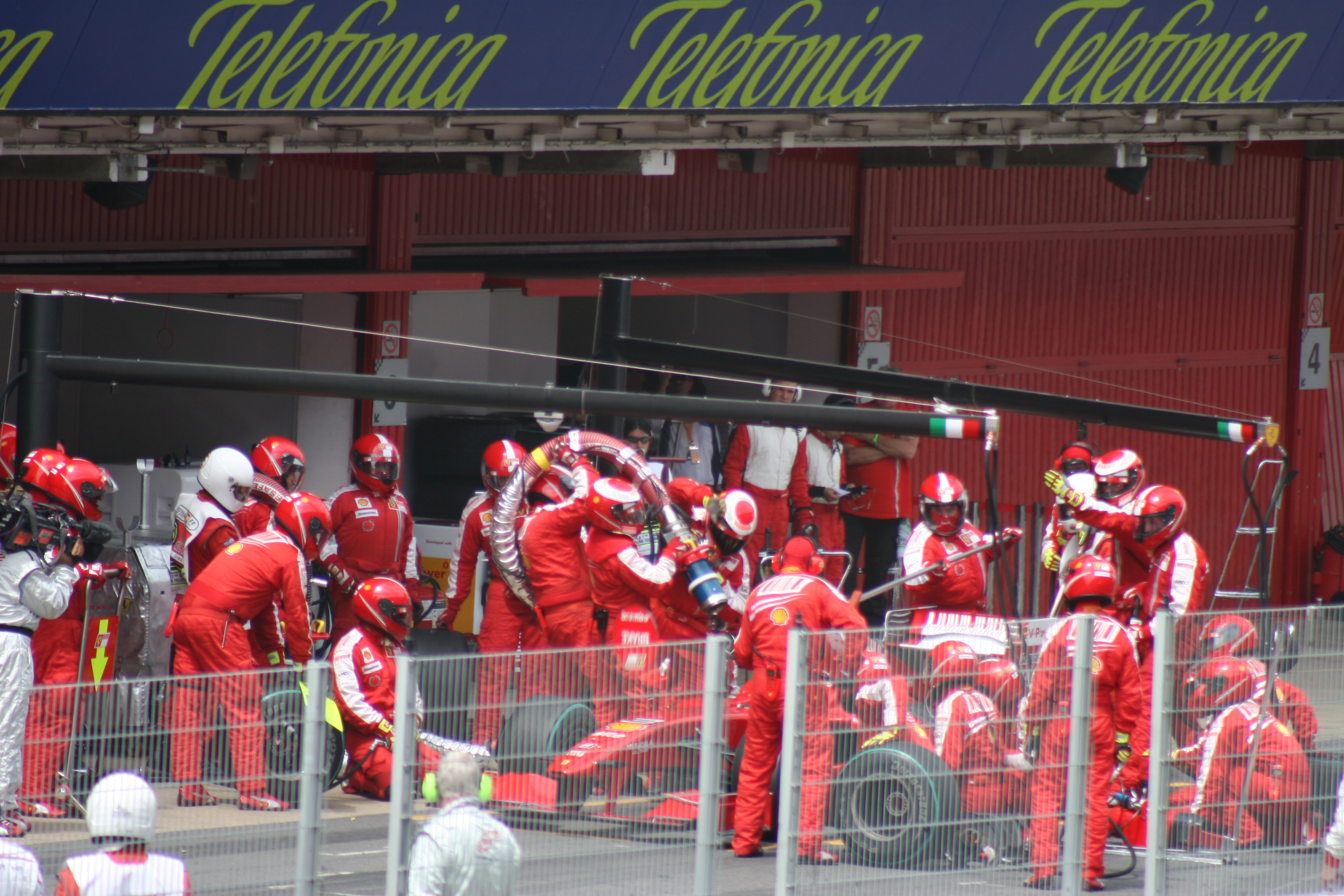 Ferrari.pitstop.Spain.09